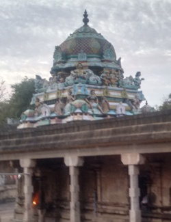 Thiruneedur Somanathaswami Temple திருநீடூர் அருட்சோமநாதர் கோயில்